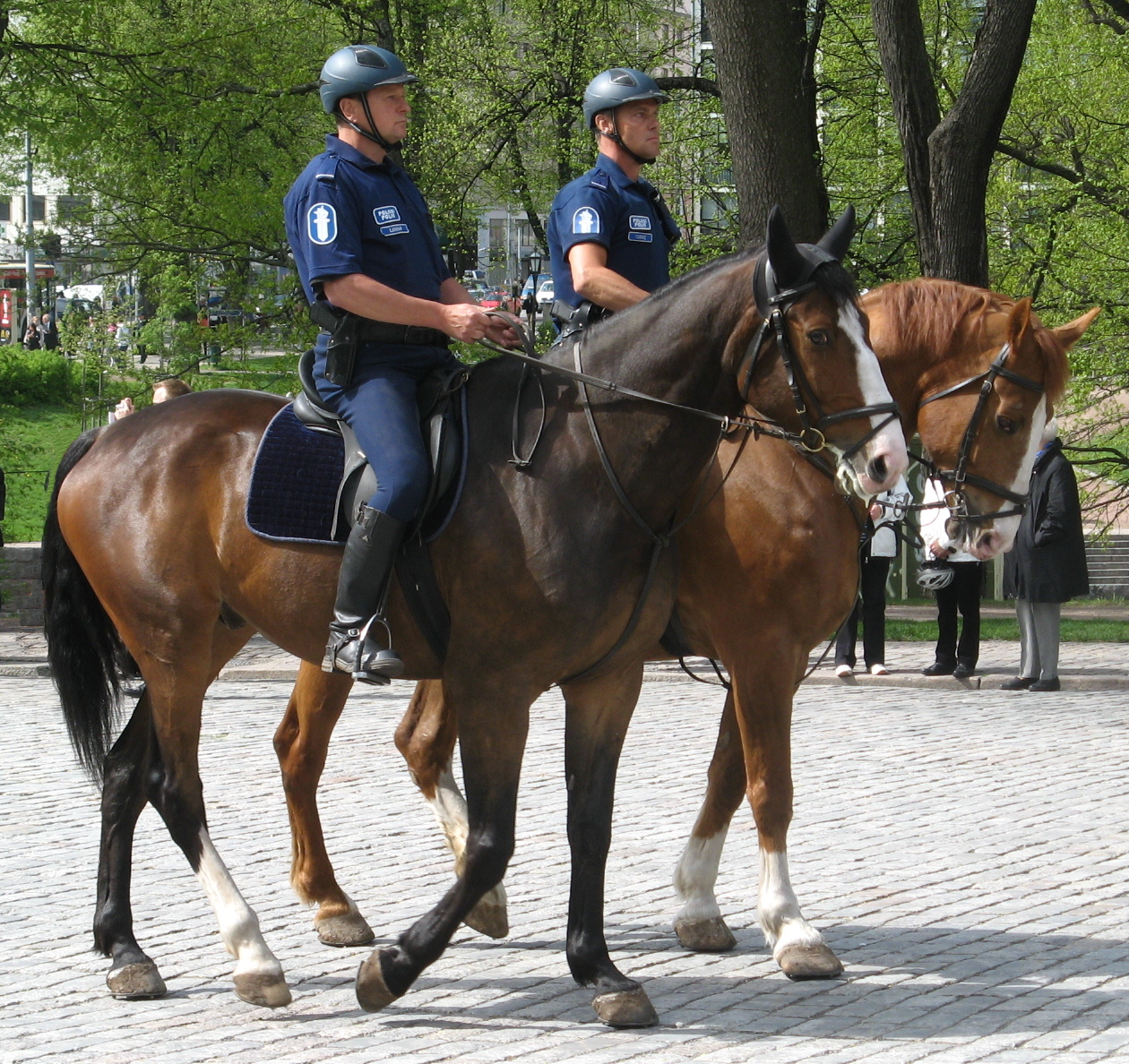 Mounted police at the promotion parade of Åbo Akademi 2011 (edited: a person removed from the background).